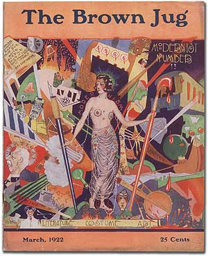 The Brown Jug, Modernist Number. Cover designed by S.J. Perelman.